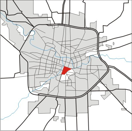 Nueva Córdoba neighborhood in Córdoba, Argentina. Highlighted in red.